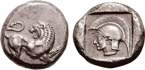 THRACE, Chersonesos. Miltiades II. Circa 495-494 BC